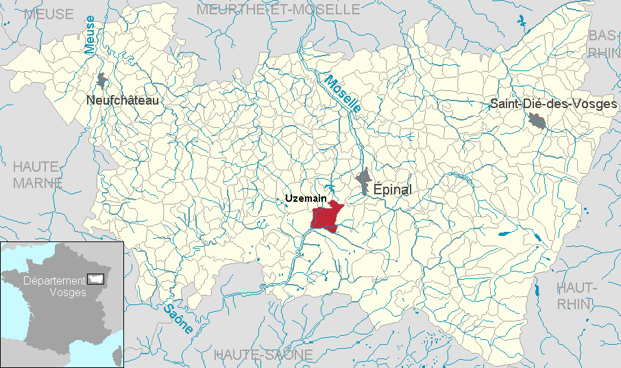 Uzemain in the department of Vosges, Lorraine, France